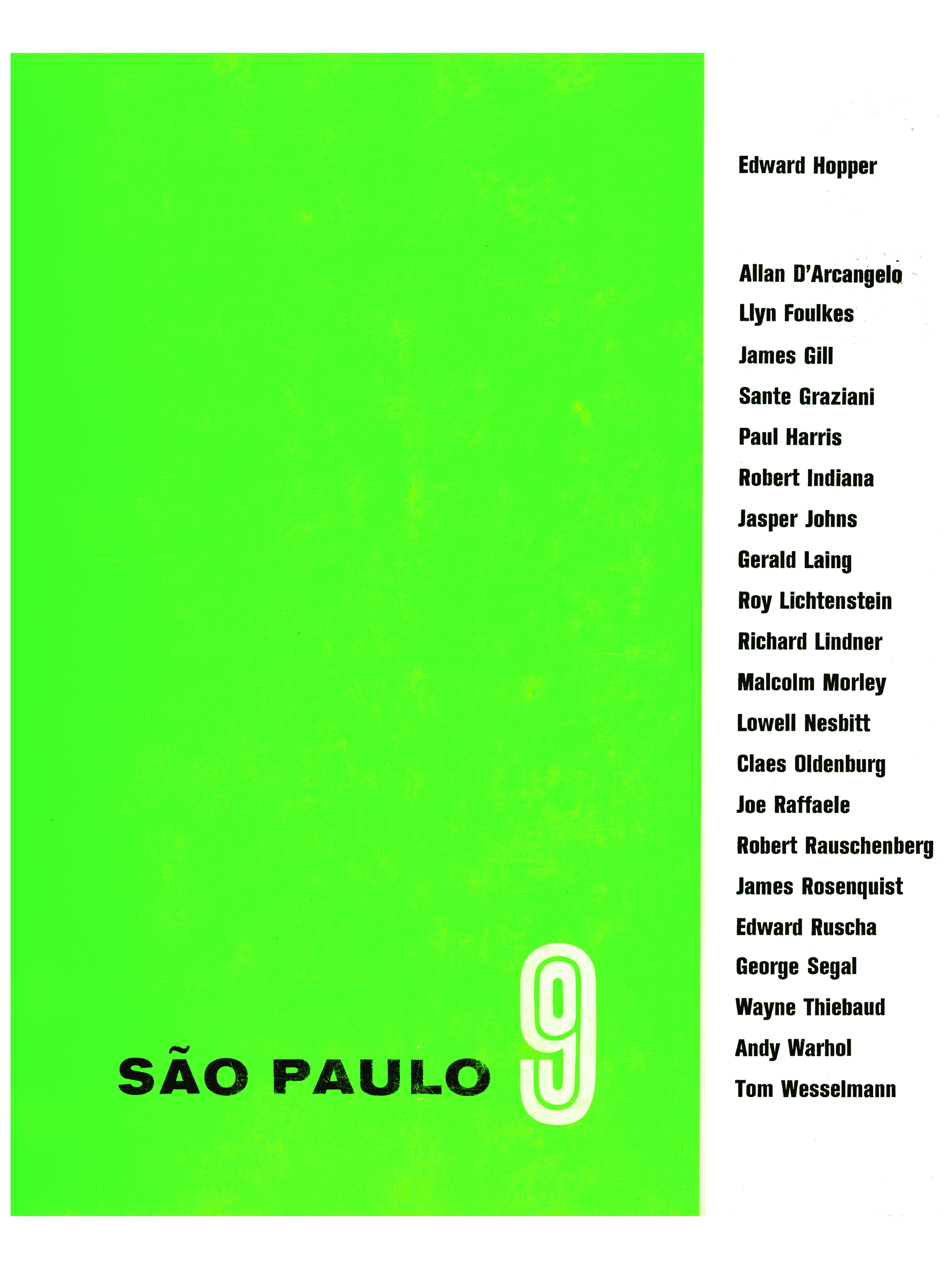 Photography of the booklet cover from São Paulo 9 art exhibition in 1967